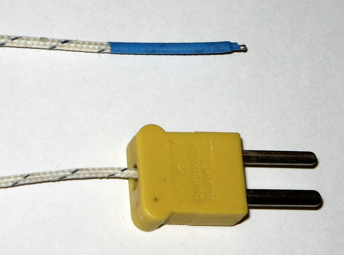 K type thermocouple Inscriptions : K CHROMEL + ALUMEL